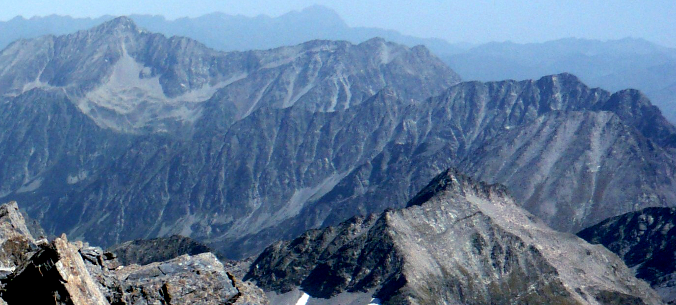 massif de l'ardiden depuis le Vignemale